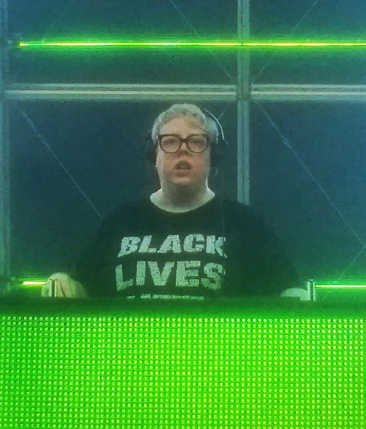 Disc jockey "The Black Madonna" at All Points East Festival in Victoria Park, London. 27 May 2018.